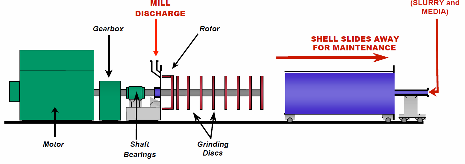 Drawing of an IsaMill showing how the shell slides off to provide access to the grinding disks and shaft.